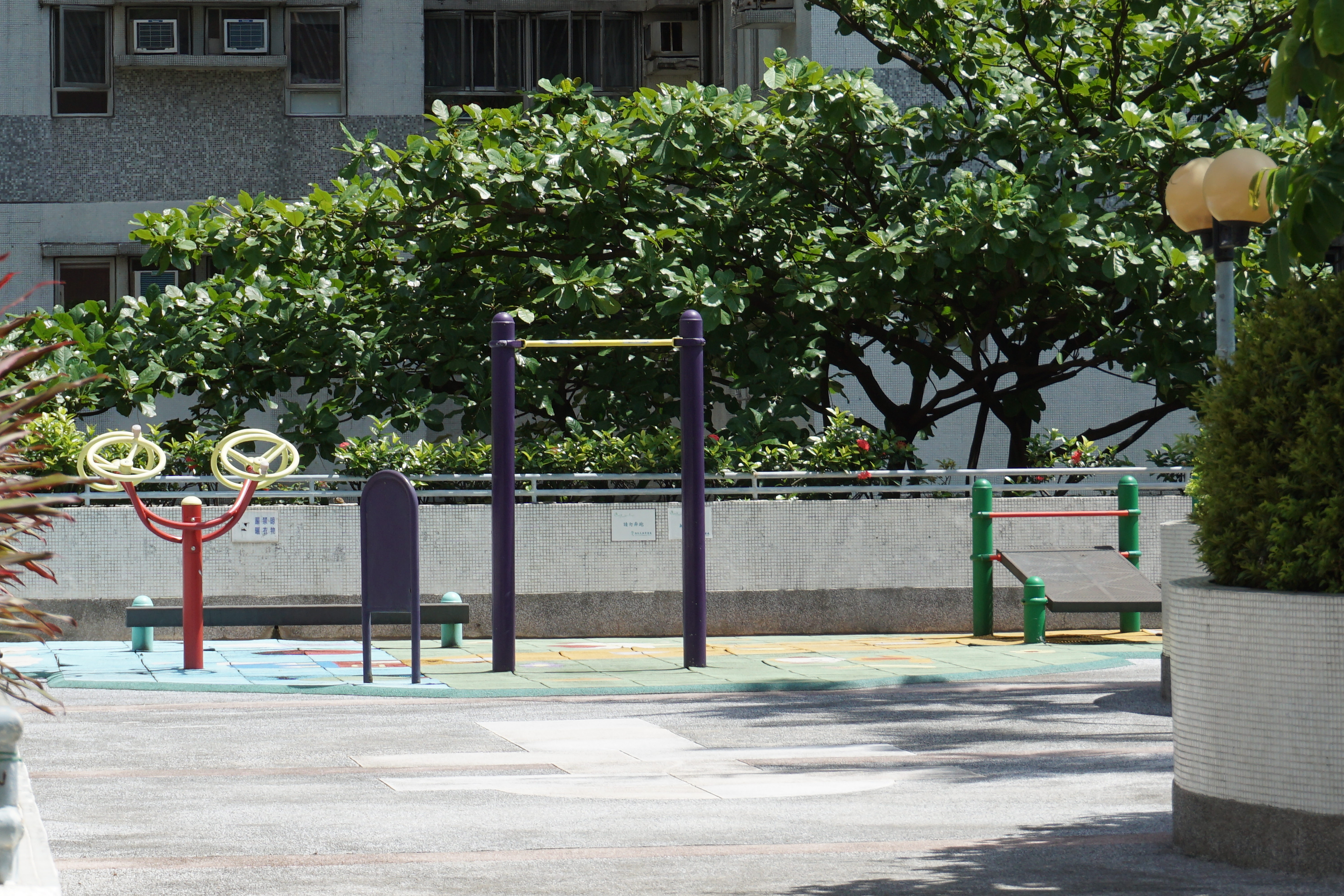 Serene Garden in Tsing Yi, Hong Kong.